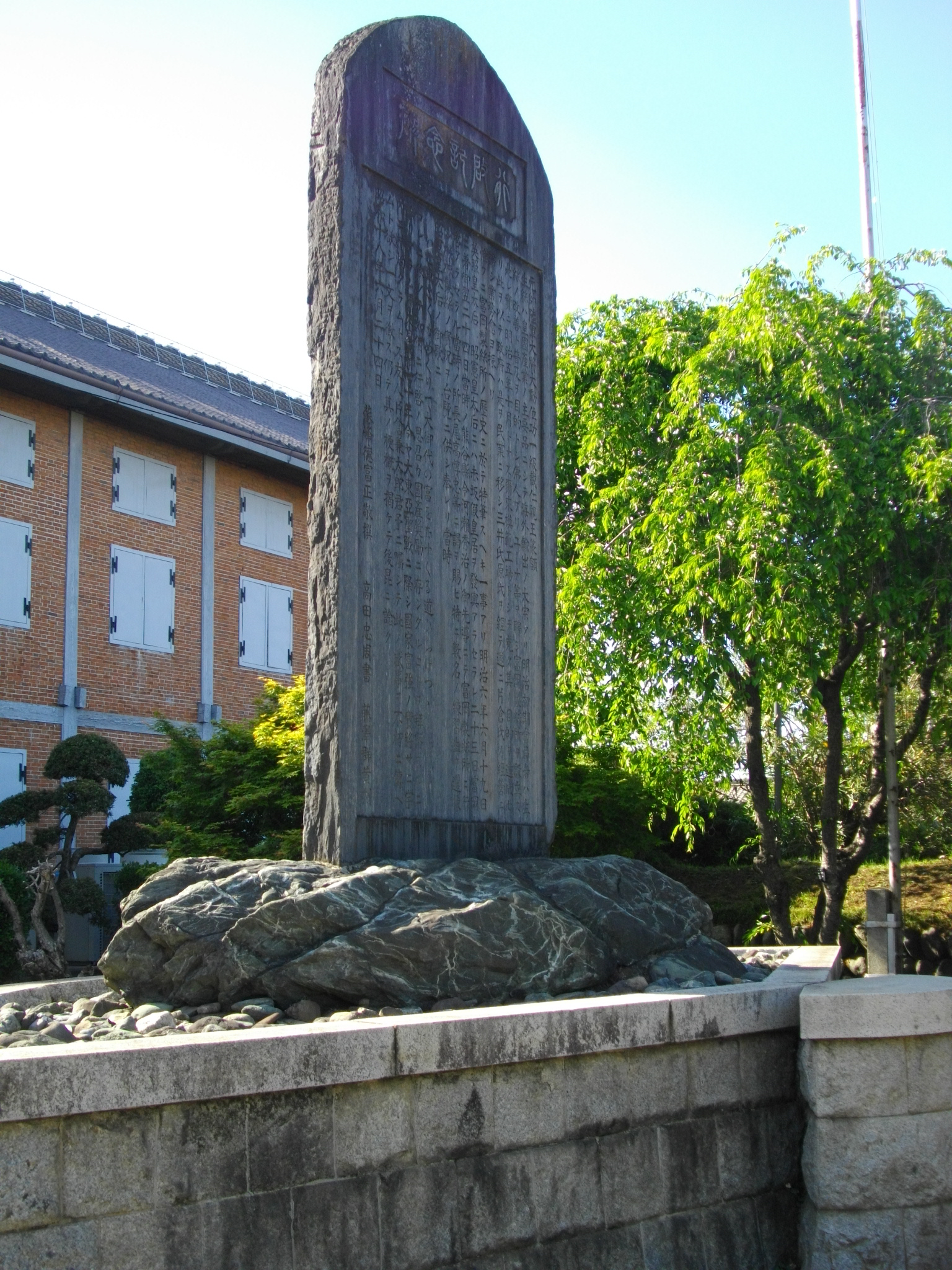 Tomioka Silk Mill Commemorative Monument of the Imperial Visit